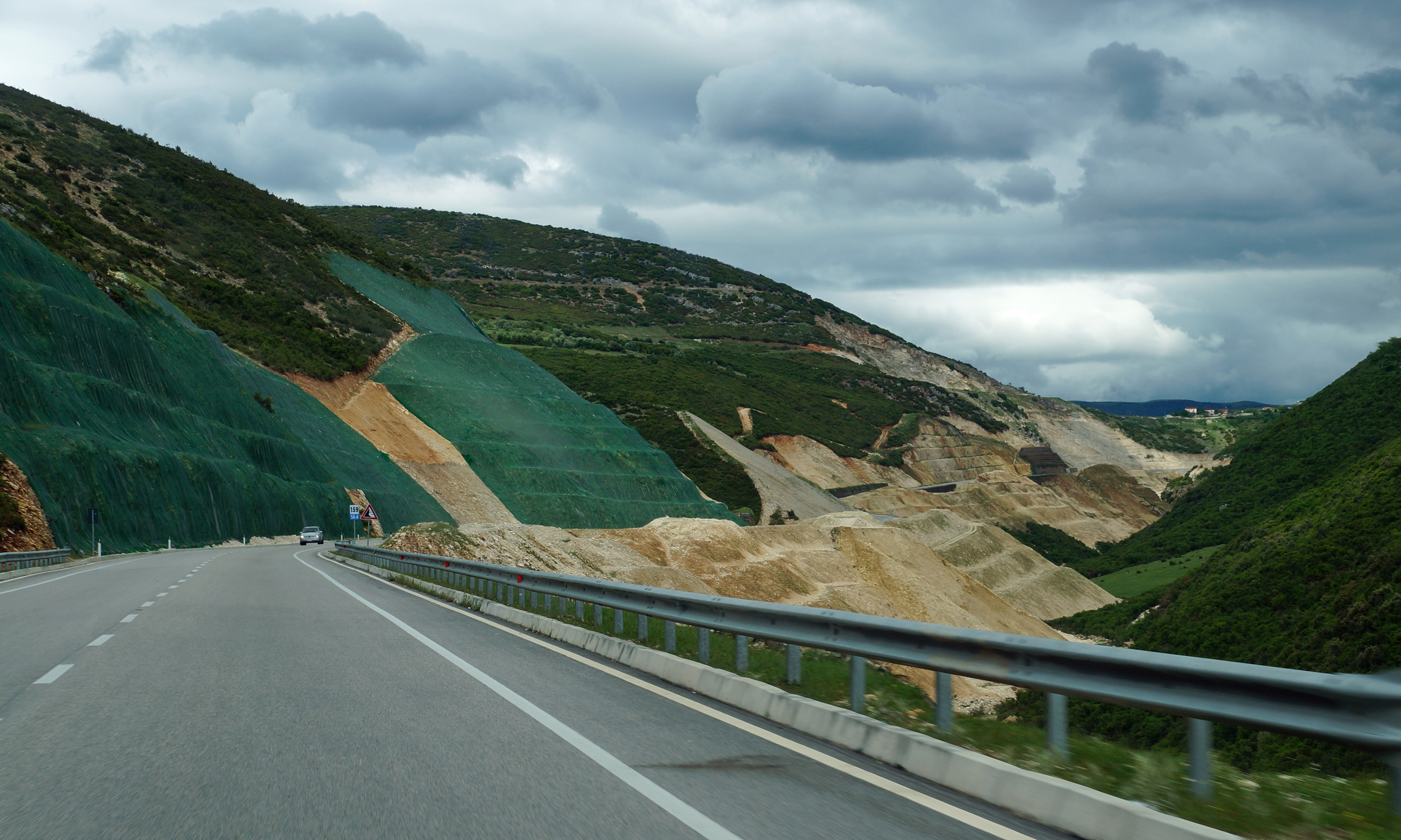 New road between Levan (Fier) and Memaliaj (Tepelenë), Southern Albania - part of rruga SH4